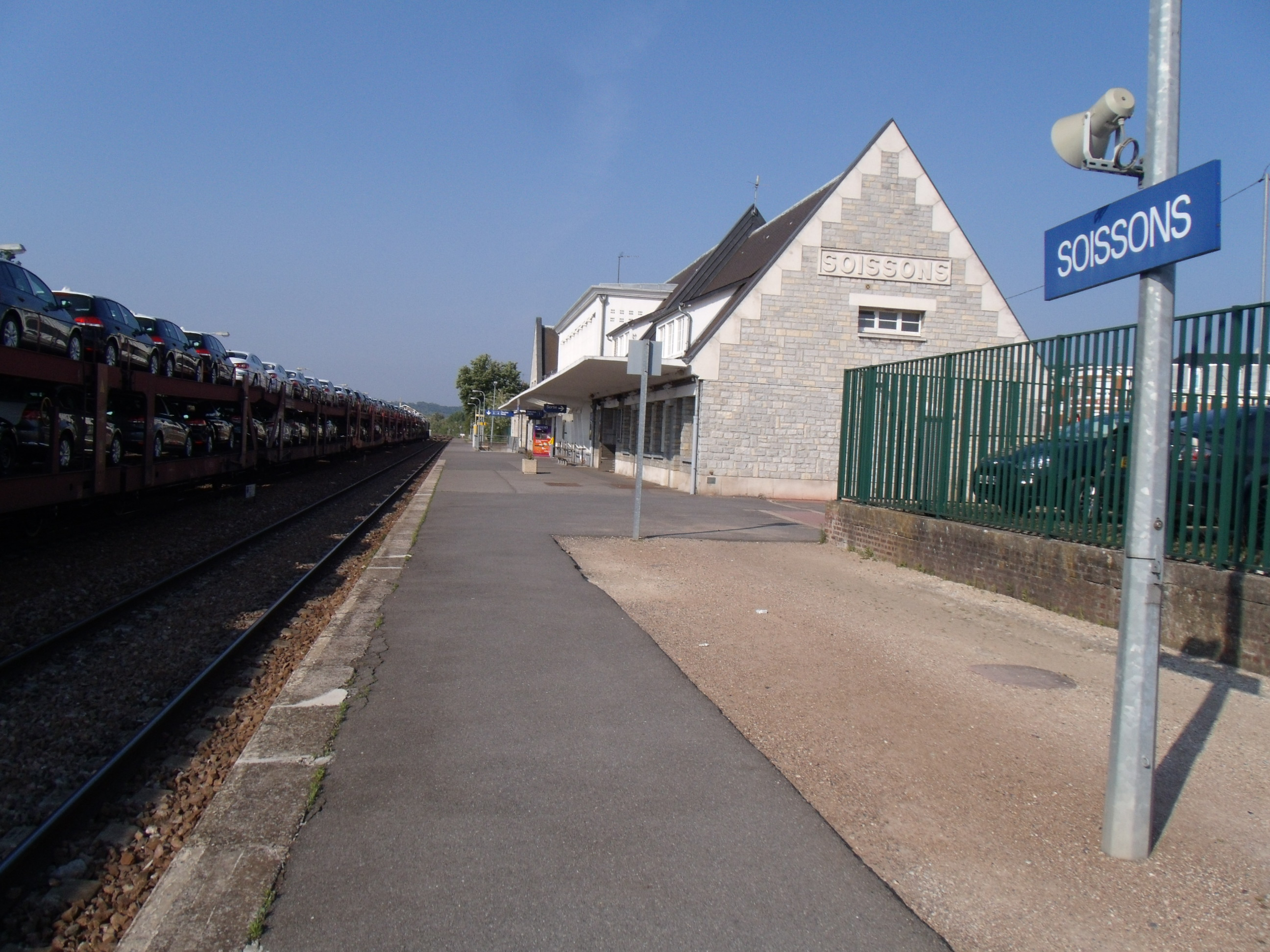 Plateform #1 Soissons station